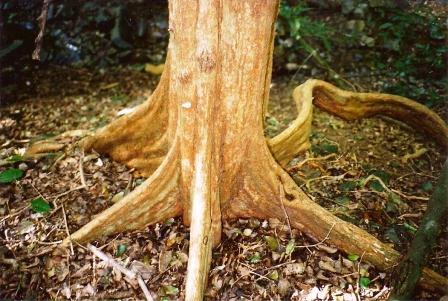 Tree at Mountain Maid, Copeland Tops, near Barrington Tops, NSW, Australia